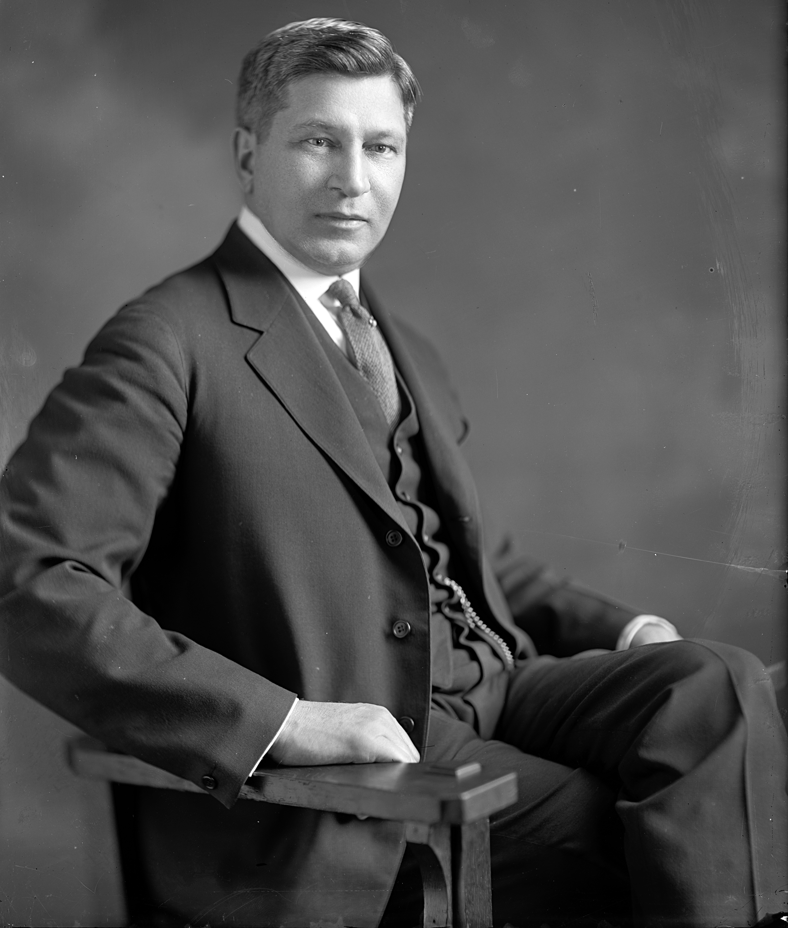 Thomas Wharton Phillips Jr., US Representative from Pennsylvania